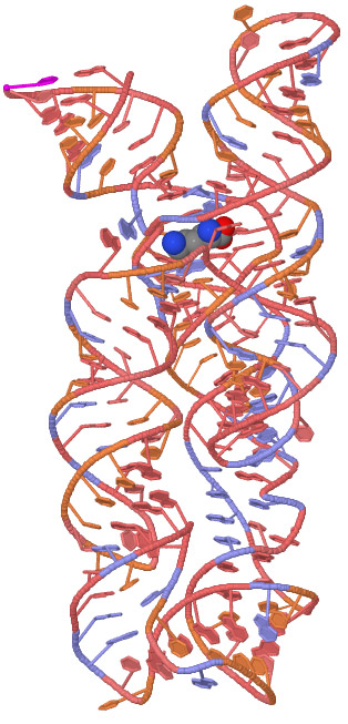 Tertiary structure of the lysine riboswitch. The image was generated by Jmol from the PDB:3DIL structure by Serganov, A.A., Huang, L., Patel, D.J. (2008) Structural insights into amino acid binding and gene control by a lysine riboswitch. Nature.